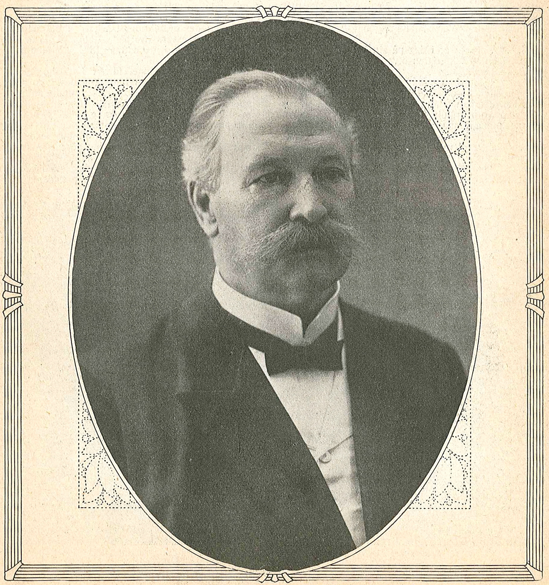 Jacob Lundahl (1844-1915), Swedish jurist and member of parliament.